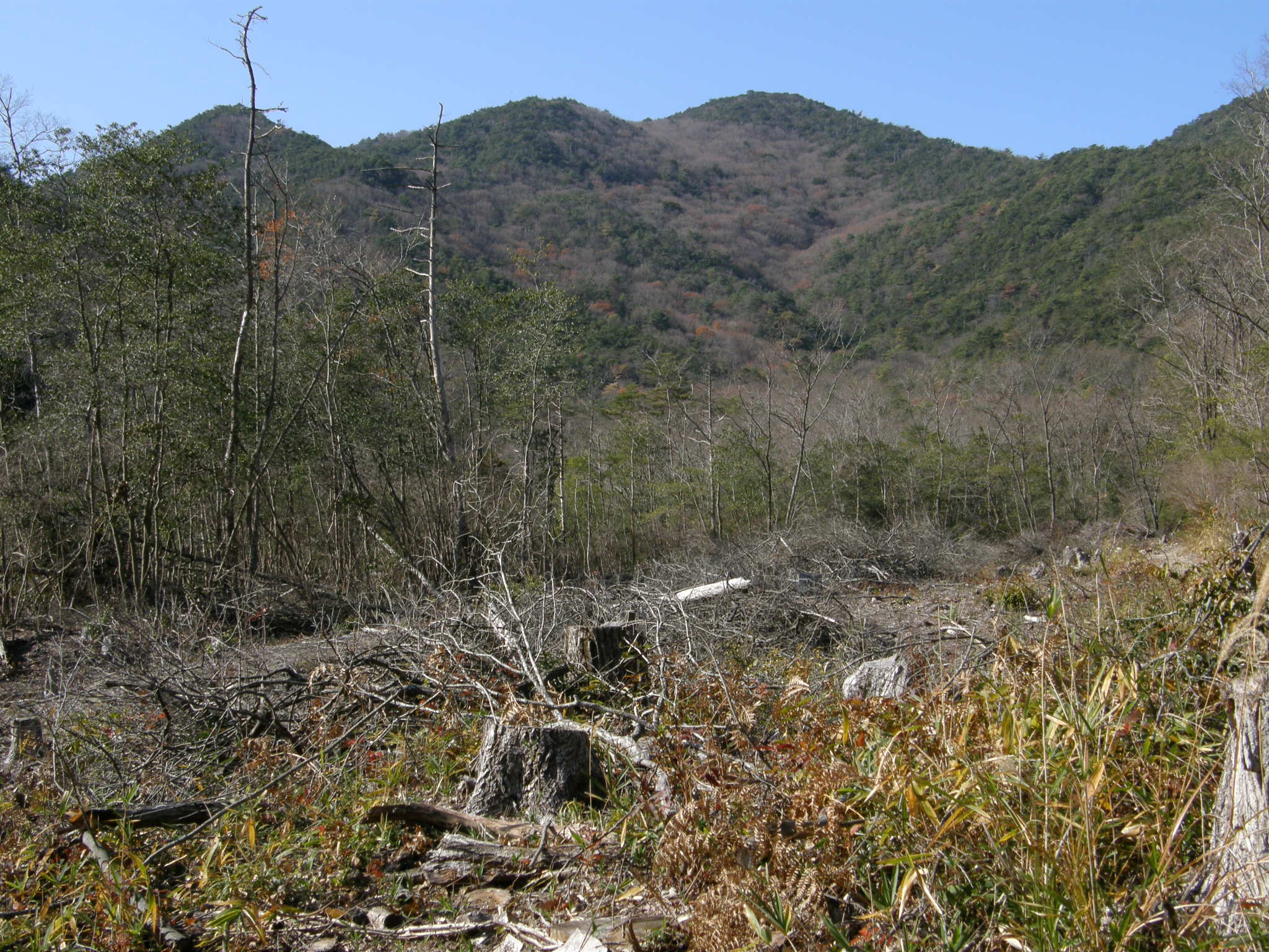 Mt. Saikoji